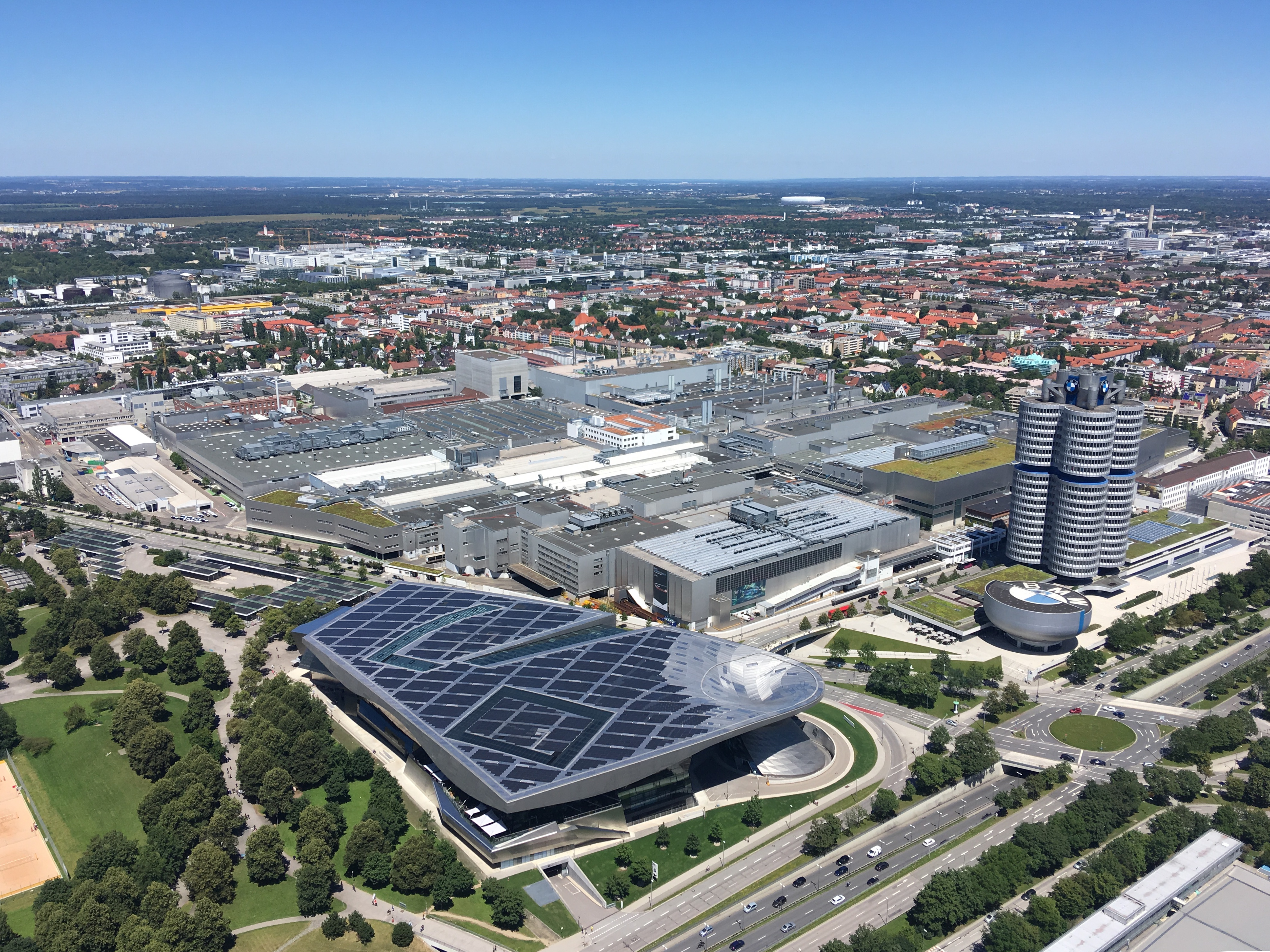 Bavaria, Germany - July 2018